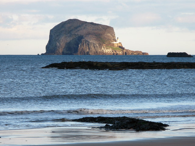 Bass Rock and his lighthouse from North Berwick, Firth of Forth, Scotland